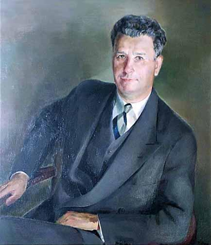 Joseph Mruk, US Congressman, Mayor of Buffalo